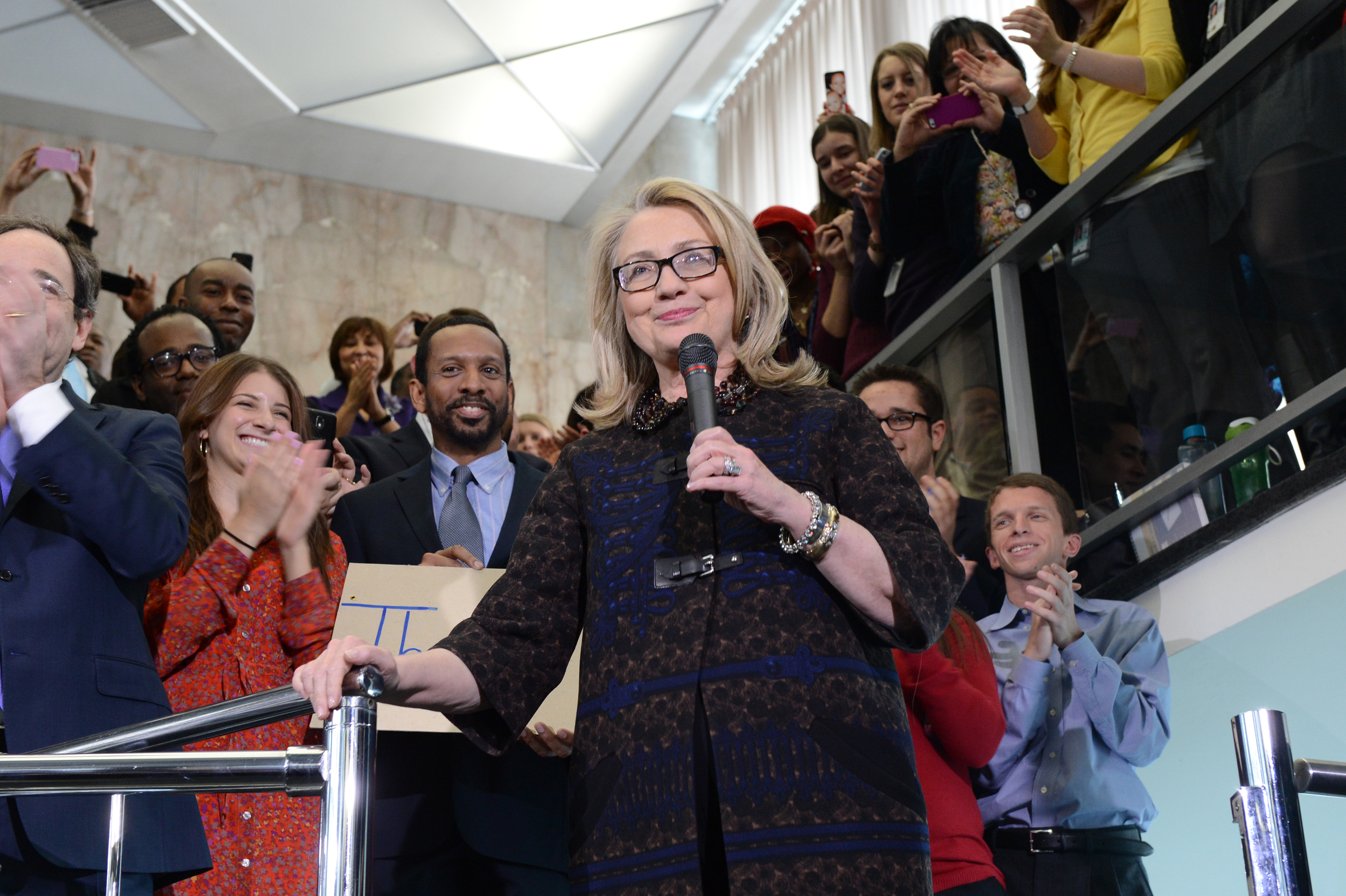 U.S. Secretary of State Hillary Rodham Clinton says farewell to State Department employees at the U.S. Department of State in Washington, D.C., on February 1, 2013. [State Department photo/ Public Domain]